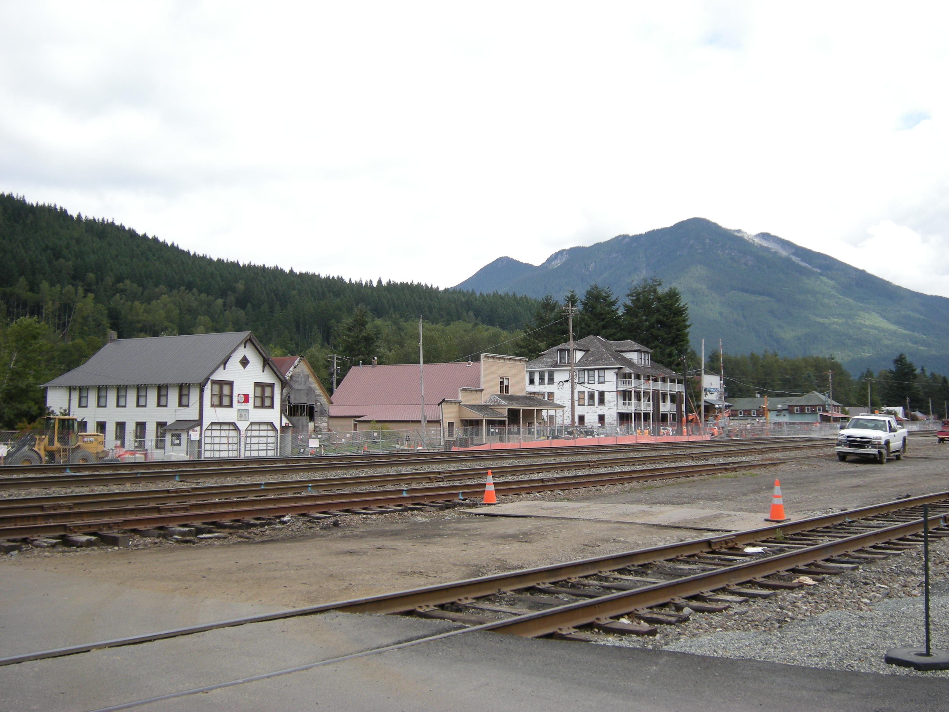 The heart of Skykomish, Washington. The building at left is the Skykomish Historical Society Museum. The large white building at center-right is the Skykomish Hotel. In between is Maloney's General Store, listed on the National Register of Historic Places. At far right is the Cascadia Hotel and Café. BNSF railway tracks in foreground.